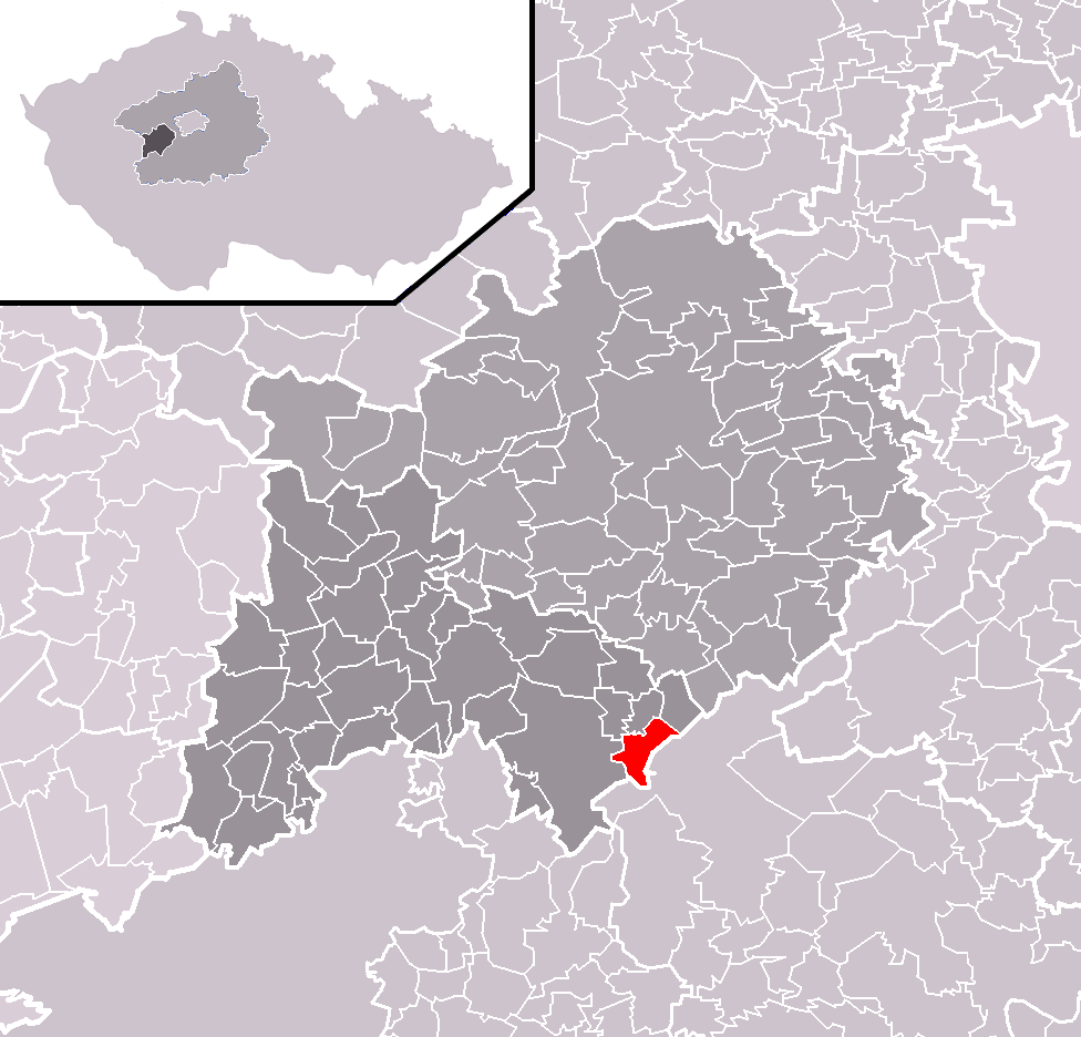 Location of Velký Chlumec municipality within Beroun District and administrative area of Hořovice as a Municipality with Extended Competence.